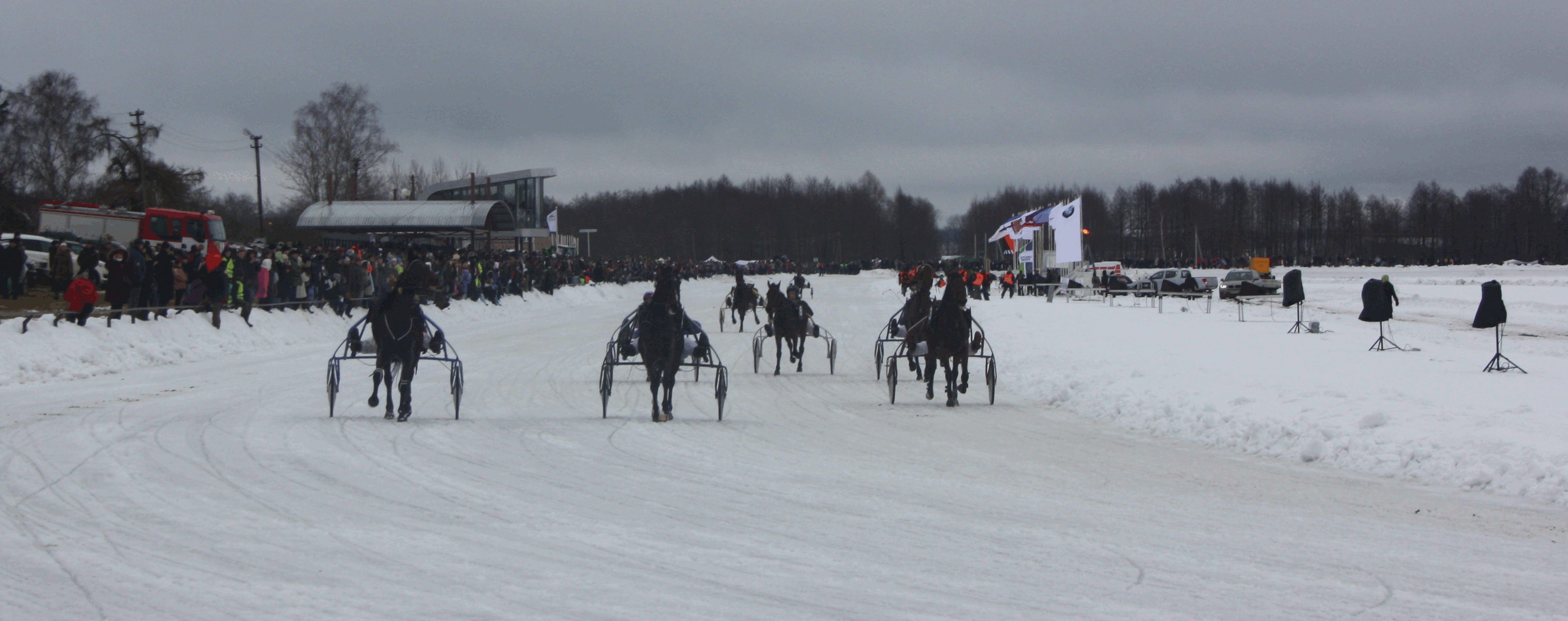 Sartai horse race in 2011